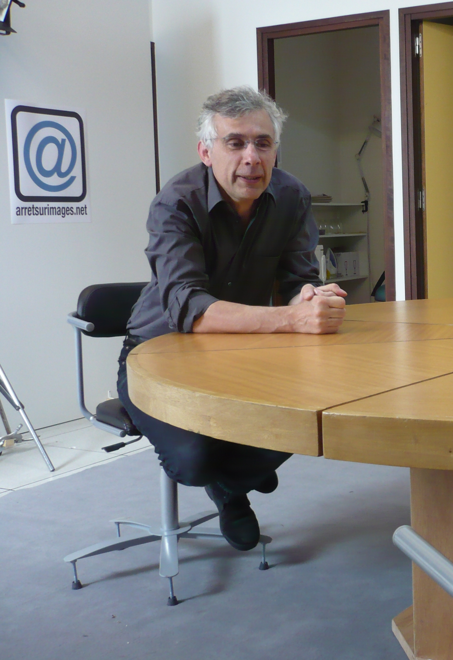 French journalist Daniel Schneidermann in 2009.